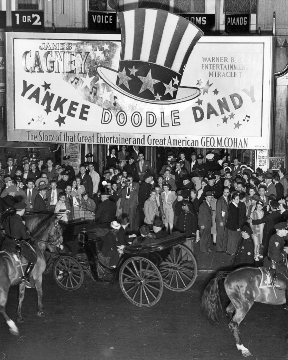 Photo of the premiere of the film Yankee Doodle Dandy at New York's Hollywood Theatre. This took place some days before the film was released for viewing by the general public. Tickets for this special showing were only made available to those who bought War Bonds. In the horse-drawn carriage are former New York governor Al Smith and his wife.